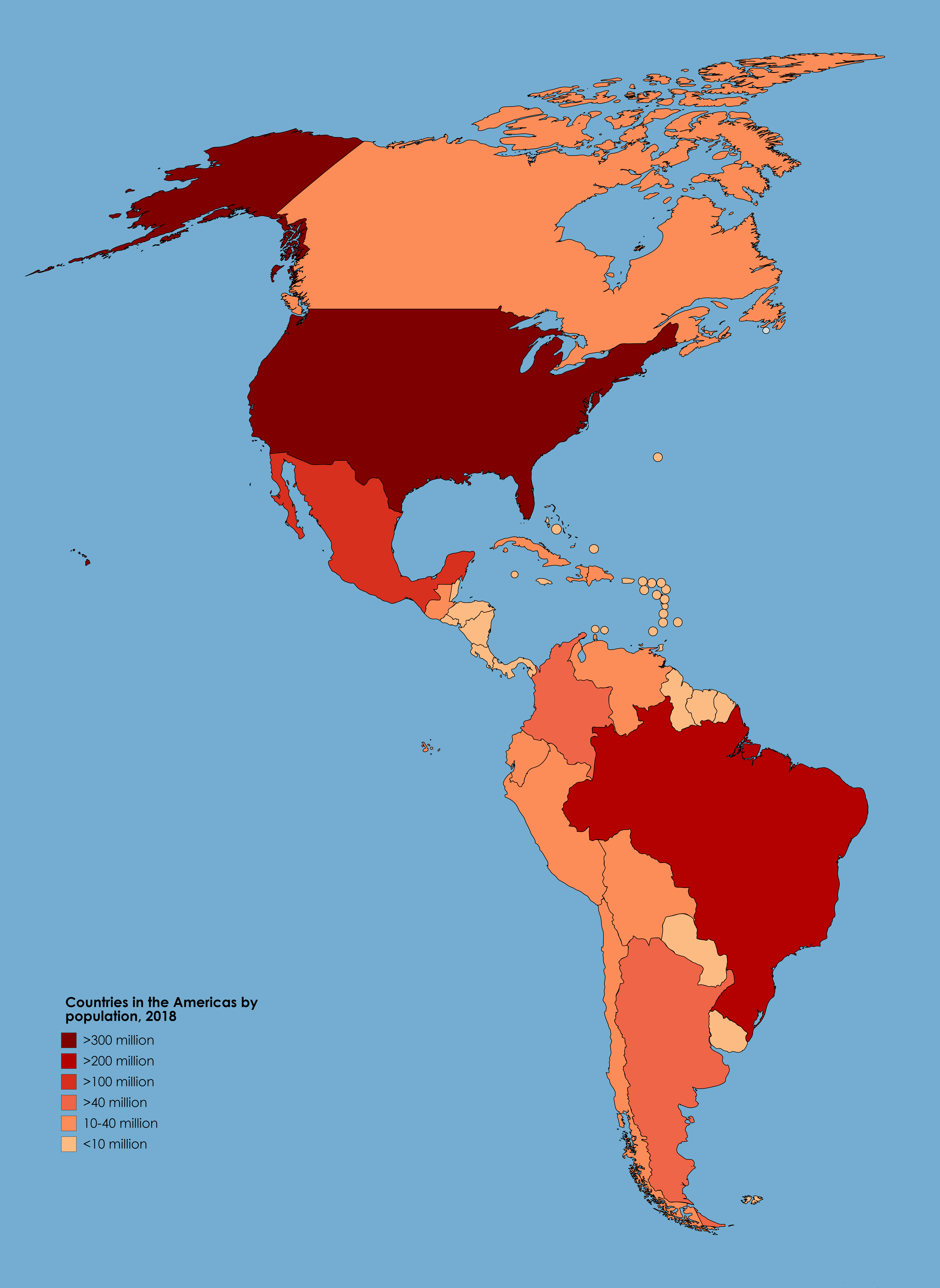 American countries by population, 2018